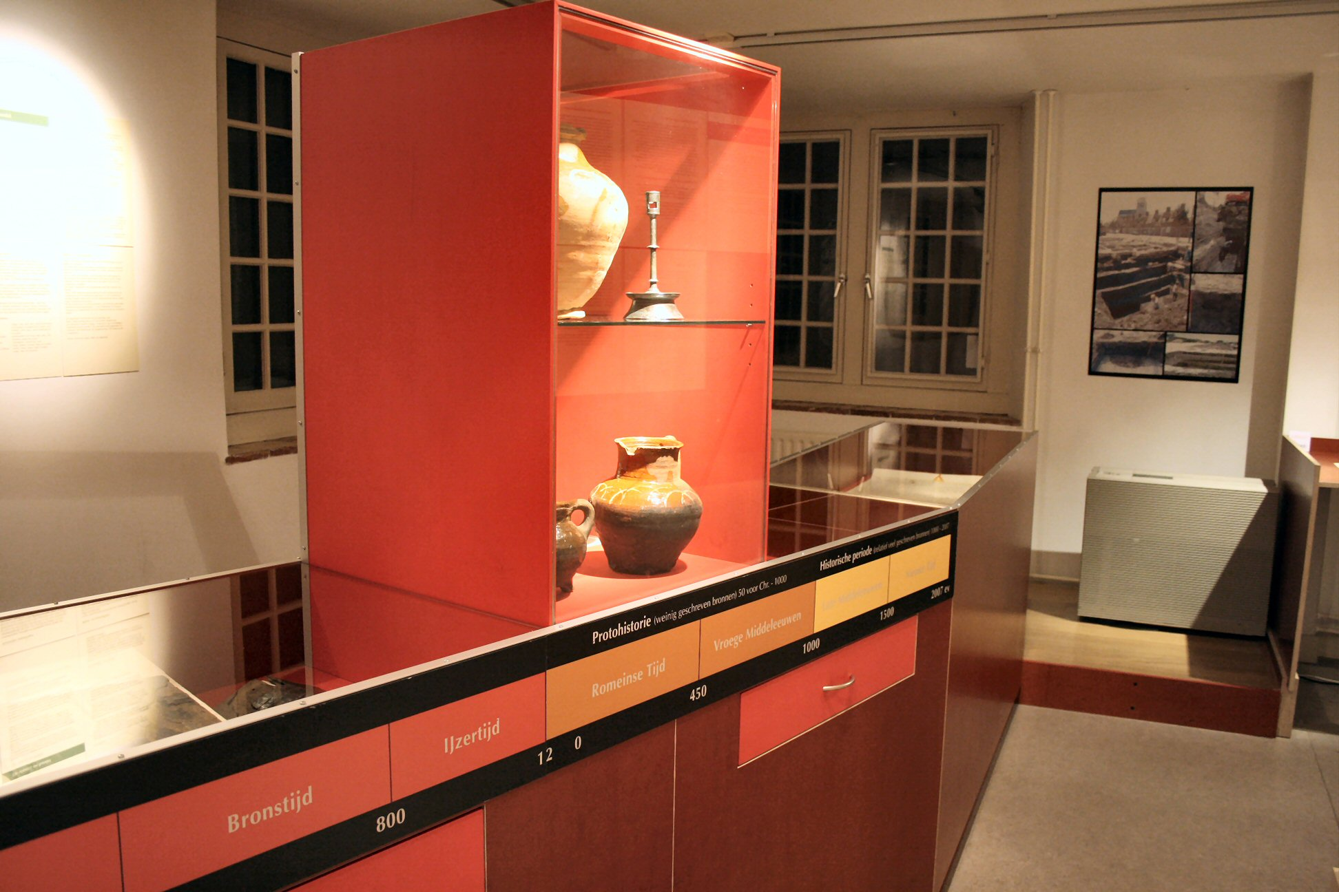 A view at part of the archaeological exhibition at the Historisch Museum Den Briel (Historical Museum Brielle).